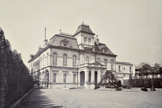 Seiyokan, Nabeshima residence in Tokyo, destroyed in the great Kanto earthquake